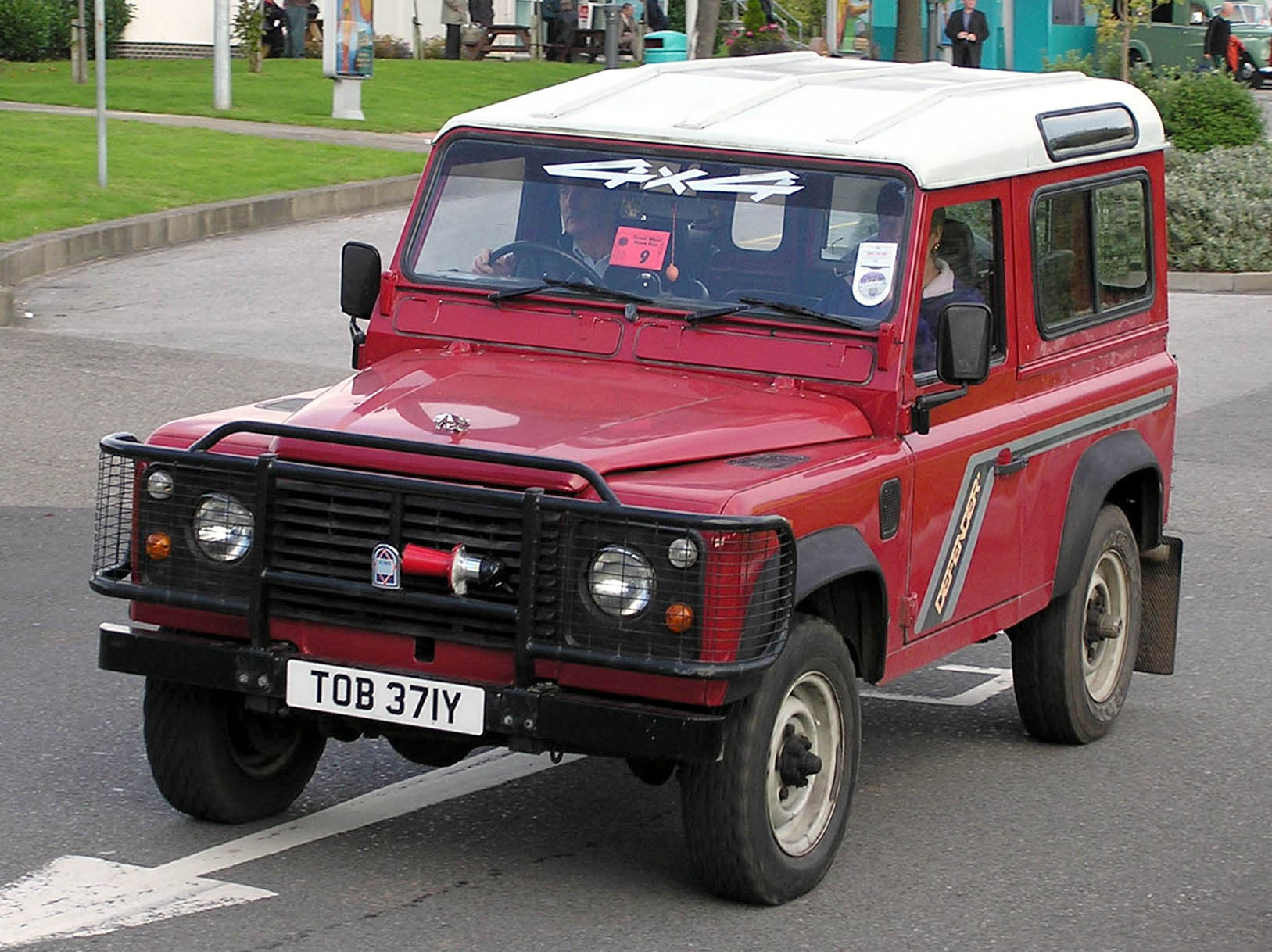 1983 Land Rover 90 Defender at the Great Western Road Run rally at Aust Services, Aust, Bristol, England. (Note: the rally notes said this vehicle is 1986 but the Y suffix (unless personalised) means 1982.) Taken by Adrian Pingstone in October 2004 and released to the public domain. This work has been released into the public domain by its author, Arpingstone. This applies worldwide. In some countries this may not be legally possible; if so: Arpingstone grants anyone the right to use this work for any purpose, without any conditions, unless such conditions are required by law.